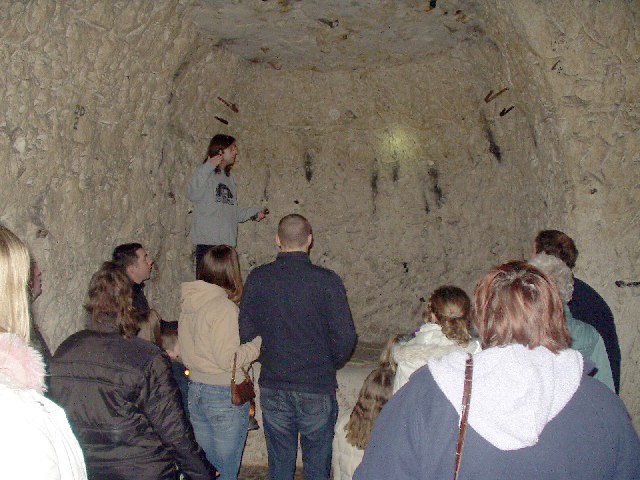 Chislehurst Caves. good tours